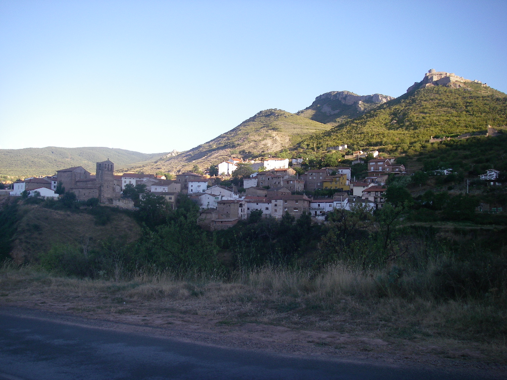 View of Jubera (La Rioja, Spain)